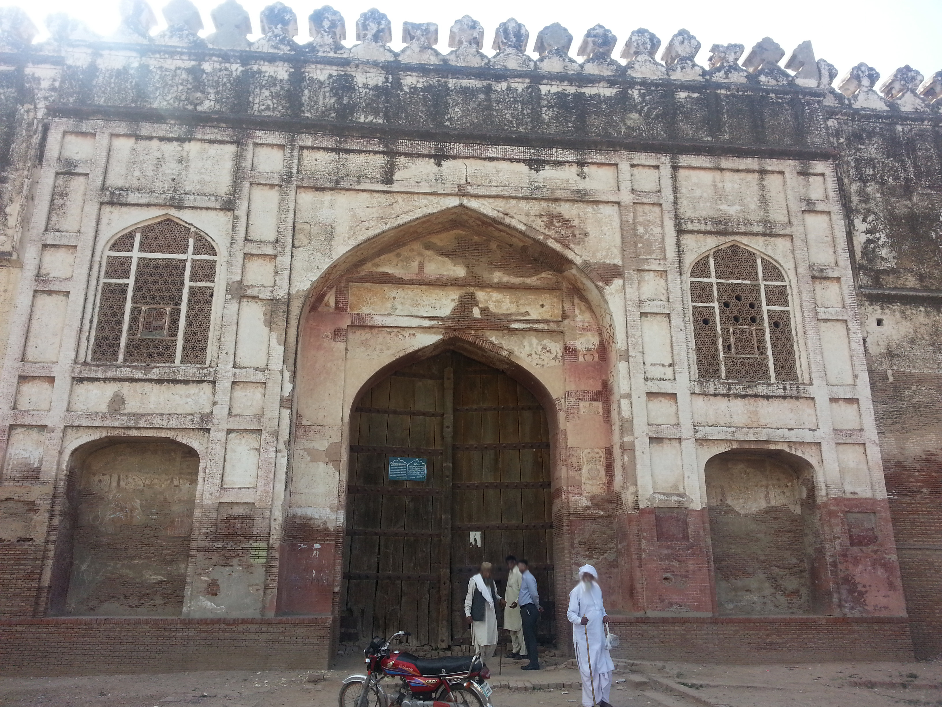 Sheikhupura Fort This is a photo of a monument in Pakistan identified as the PB-U-57